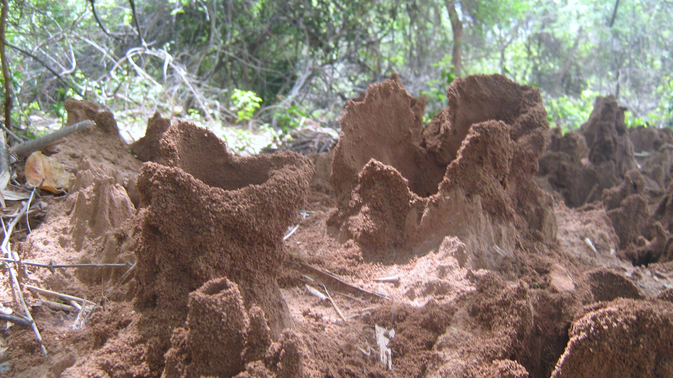 the termite mound. Tamil Nadu, India.